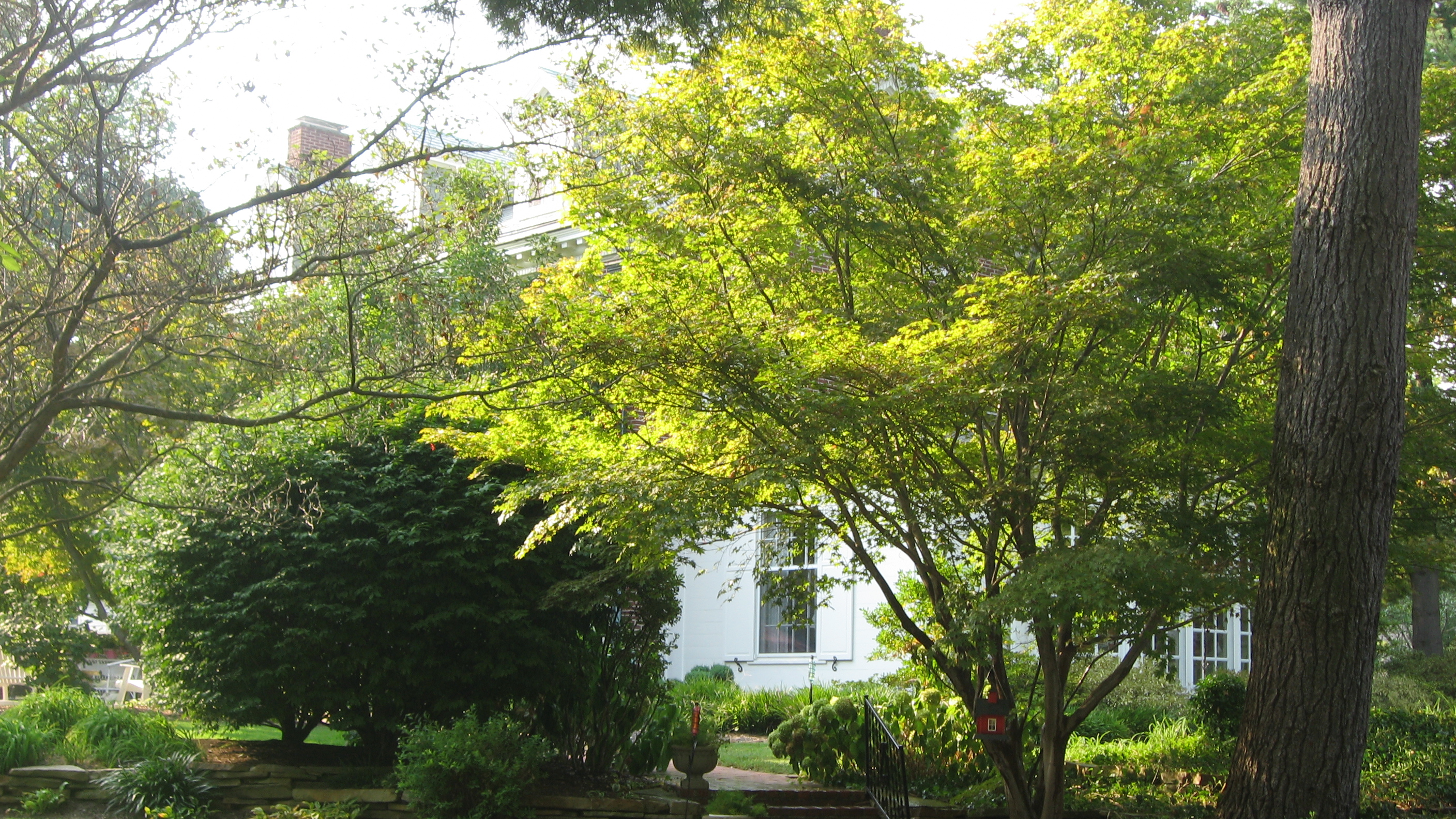 View through the trees of the rear of the Bernardin-Johnson House, located at 17 Johnson Place in Evansville, Indiana, United States. Built in 1917, it is listed on the National Register of Historic Places.